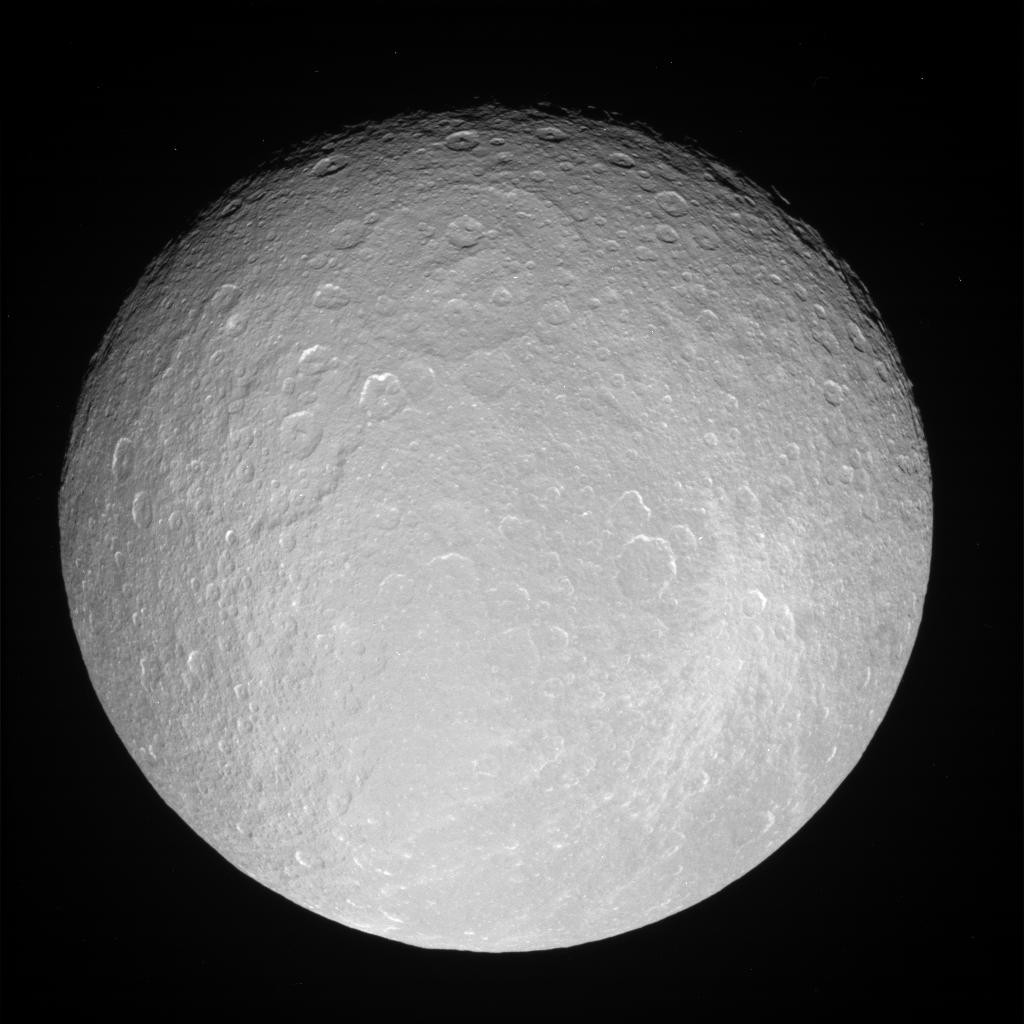 Raw Rhea image from Cassini Original caption N00043262.jpg was taken on November 26, 2005 and received on Earth November 26, 2005. The camera was pointing toward RHEA at approximately 291,020 kilometers away, and the image was taken using the UV2 and CL2 filters. This image has not been validated or calibrated. A validated/calibrated image will be archived with the NASA Planetary Data System in 2006.